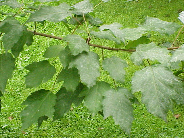 Species: Acer tataricum Family: Aceraceae Image No. 2